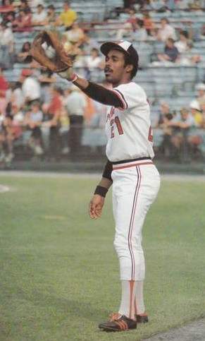 Professional baseball player Elliott Maddox